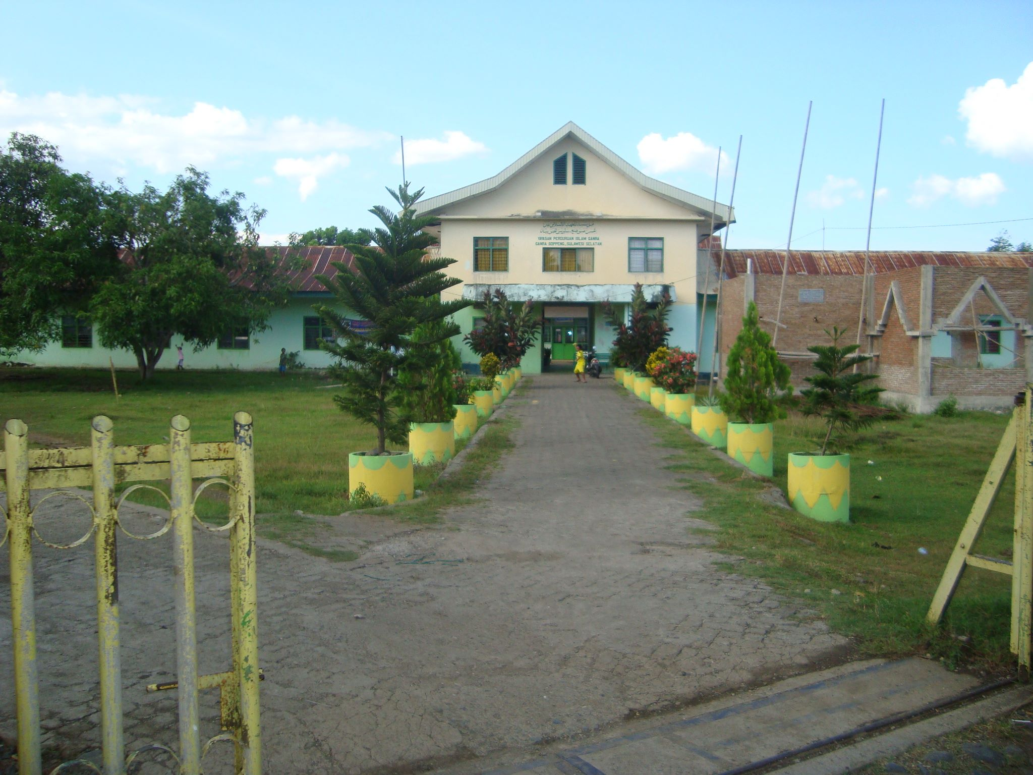 Yayasan Perguruan Islam Ganra